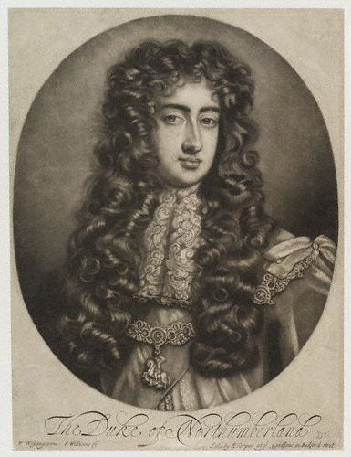 George FitzRoy, 1st Duke of Northumberland